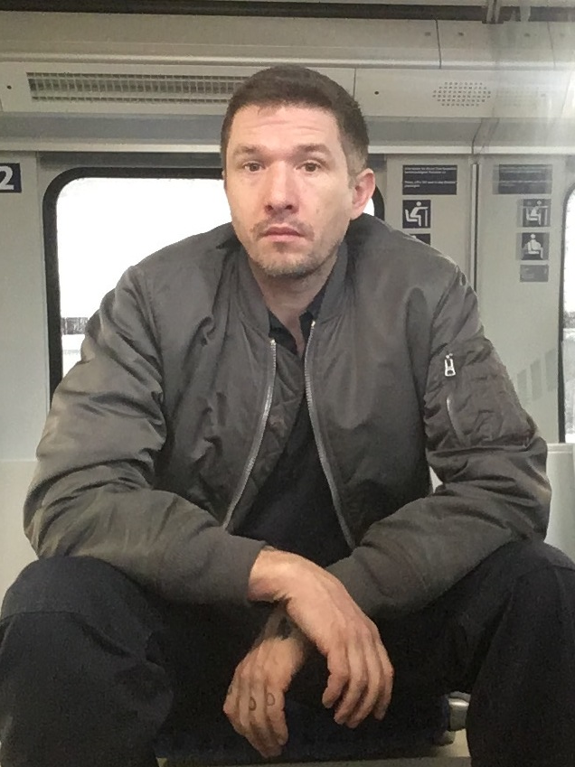 Photo of Jesse Ball on the subway